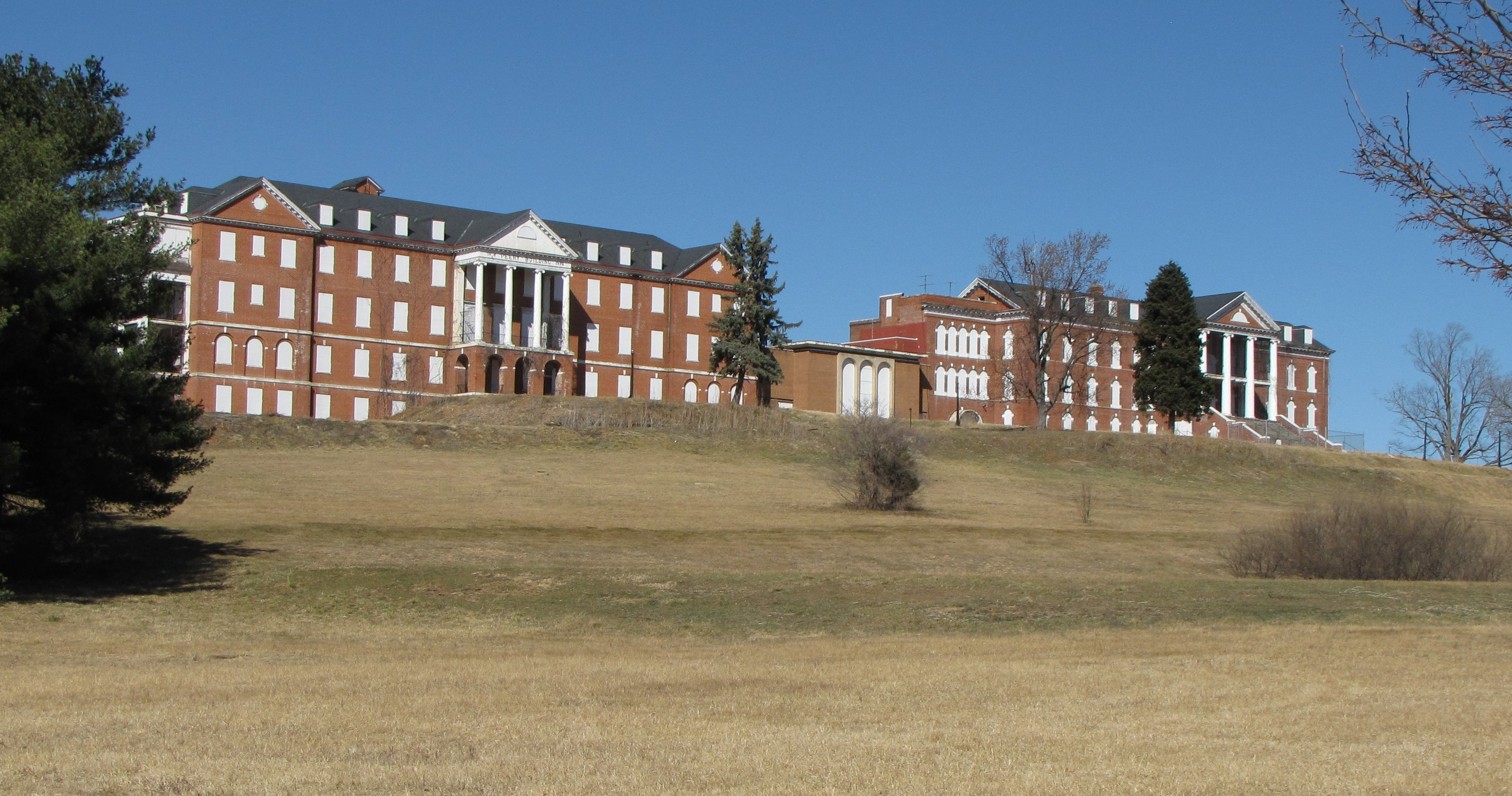 Full view of former DeJarnette Center complex.